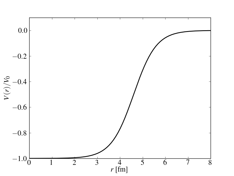 Woods Saxon potential for A=50, at units of fermi, relative to V_0, a=0.5fm. V ( r ) = − V 0 1 + exp ⁡ ( r − R a ) {\displaystyle V(r)=-{\frac {V_{0 {1+\exp({\frac {r-R}{a \;) \!\,}